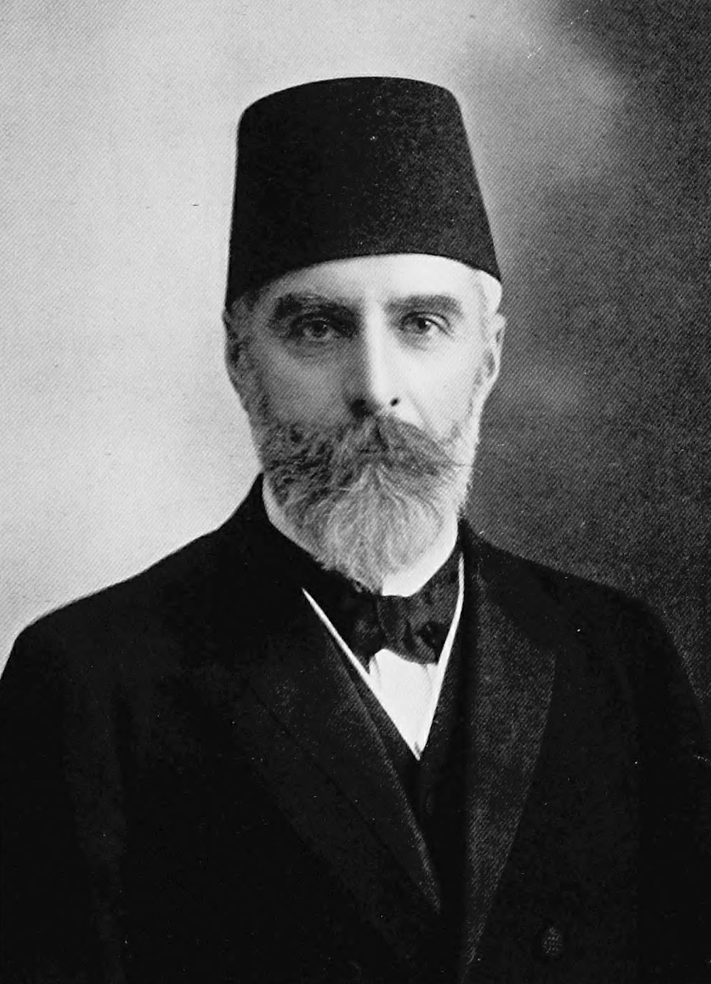 JPG version of the PNG file already uploaded